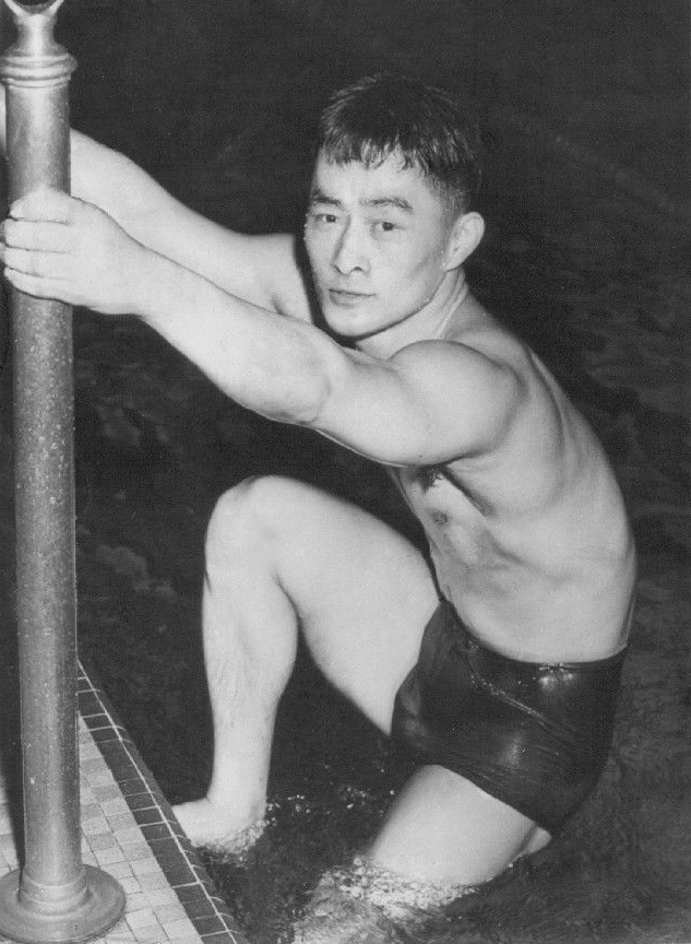 1956 New York Japanese Jiro Nagasawa Set New Record for Butterfly Press Photo